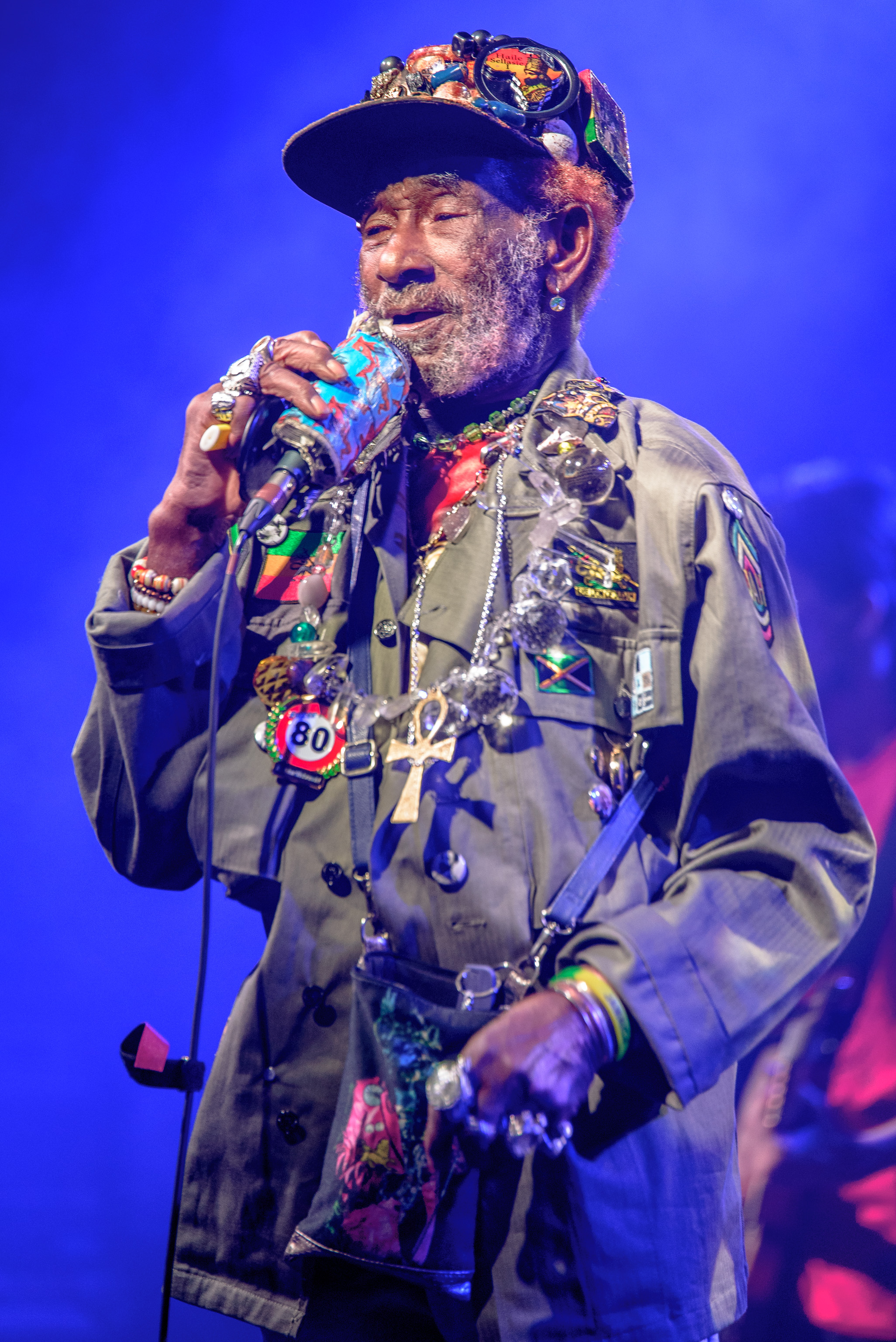 Lee Scratch Perry Live @ Munich 2016